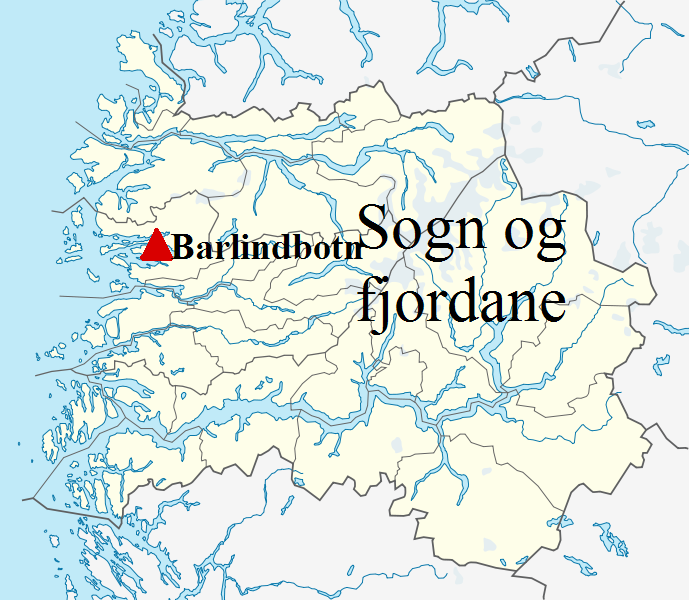 map showing Barlindbotn in Sogn og Fjordane, Norway.